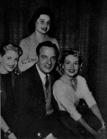 Joan O'Brien, Cathy Crosby and Carol Richards pose with Bob Crosby. The three women sang on The Bob Crosby Show on CBS television.